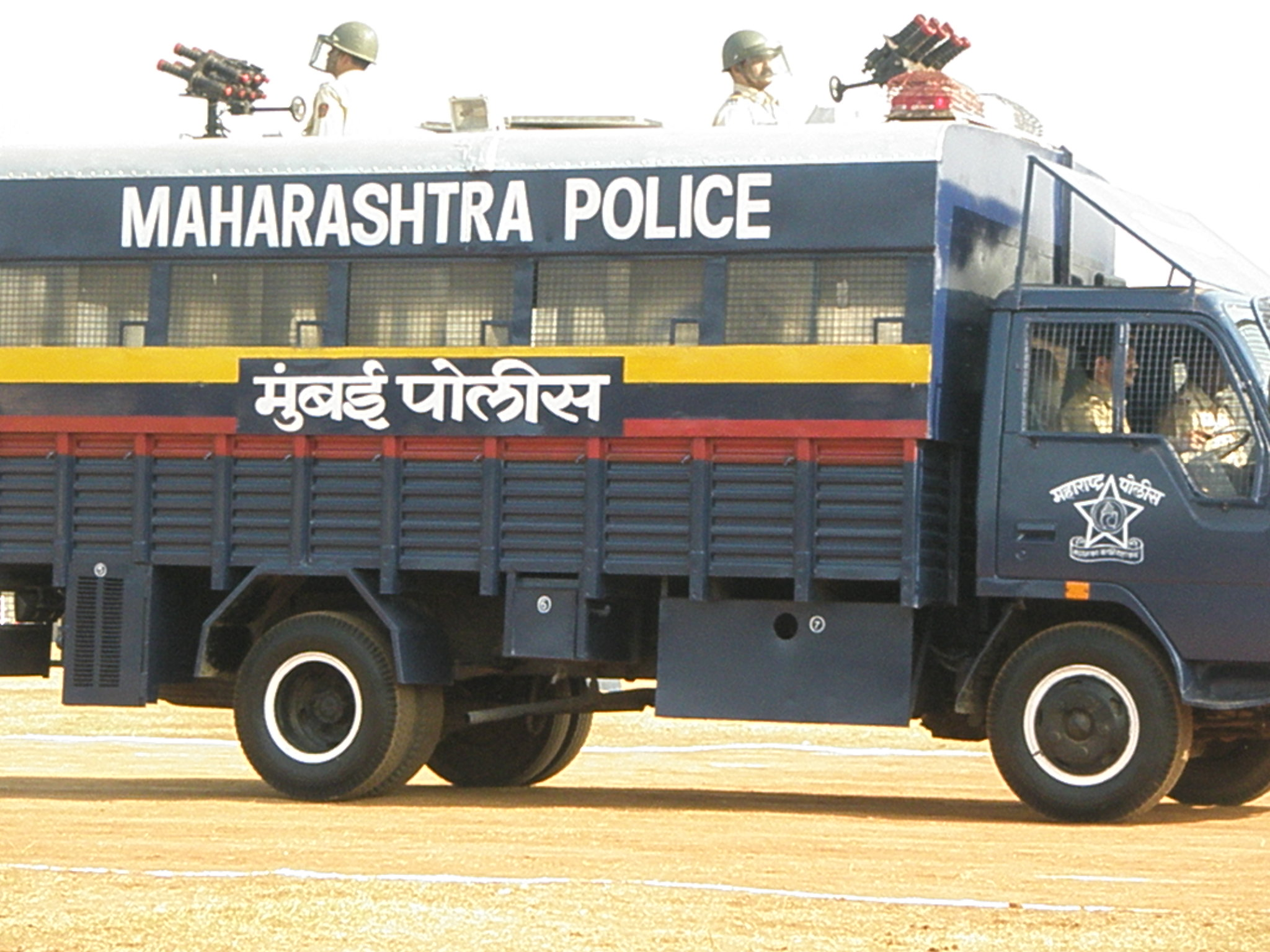 Republic day parade in Mumbai